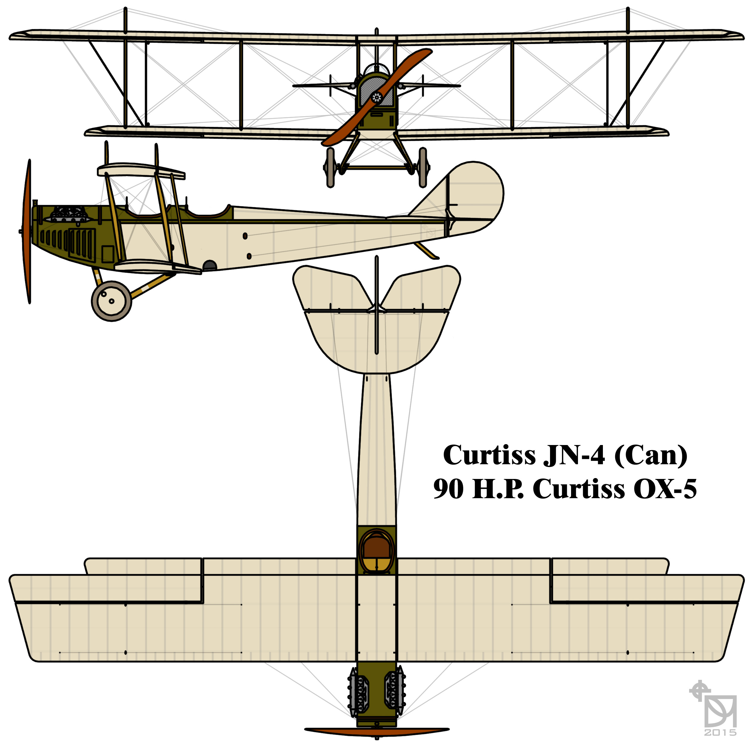 Curtiss JN-4 (Can) "Canuck" First World War Canadian two seat biplane trainer.